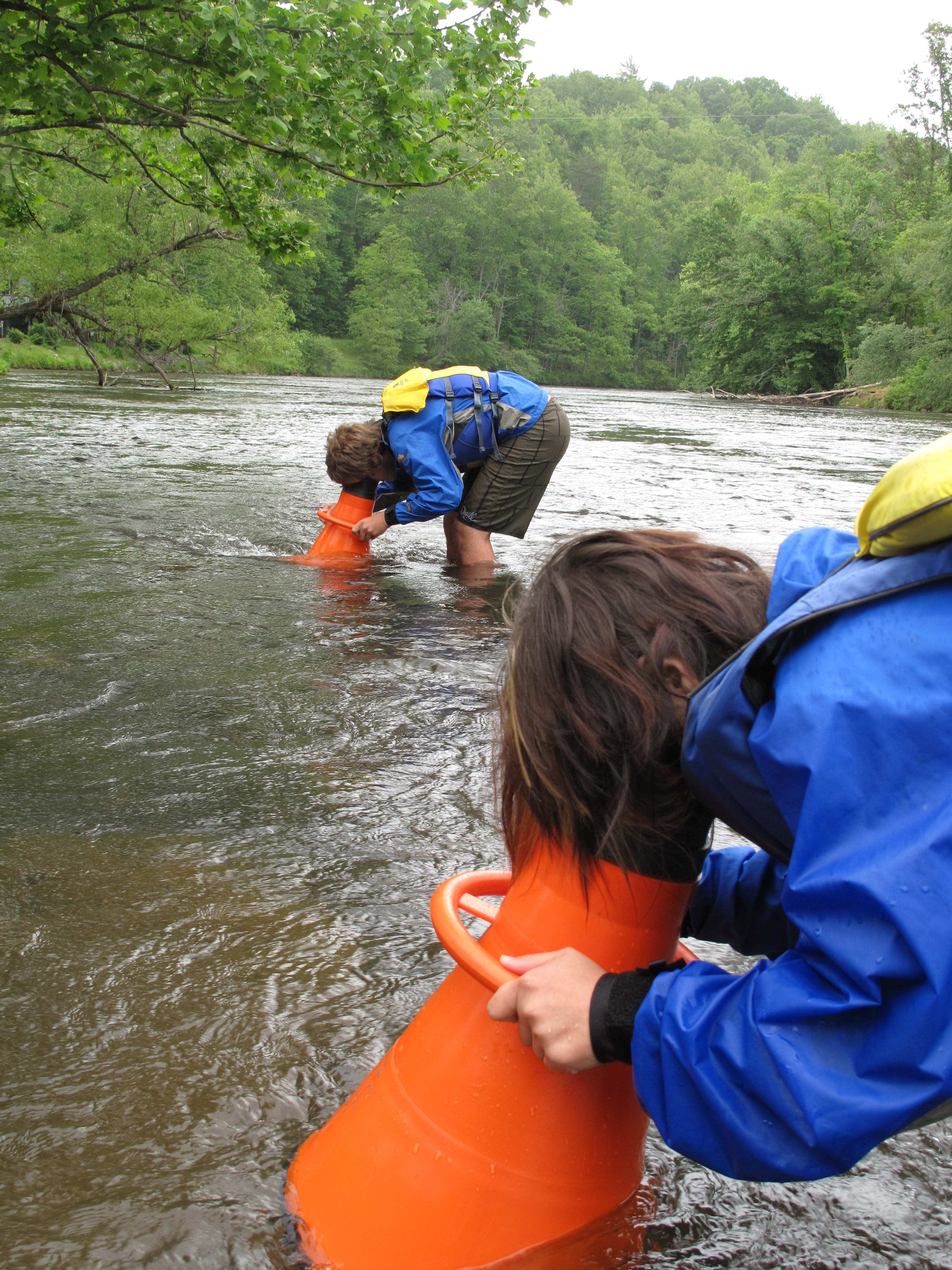 Students from Swain County High School's Environmental Awareness Club searching for mussels in North Carolina's Tuckasegee River. Credit: Gary Peeples/USFWS